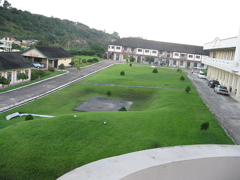 University of Mines and Technology campus image